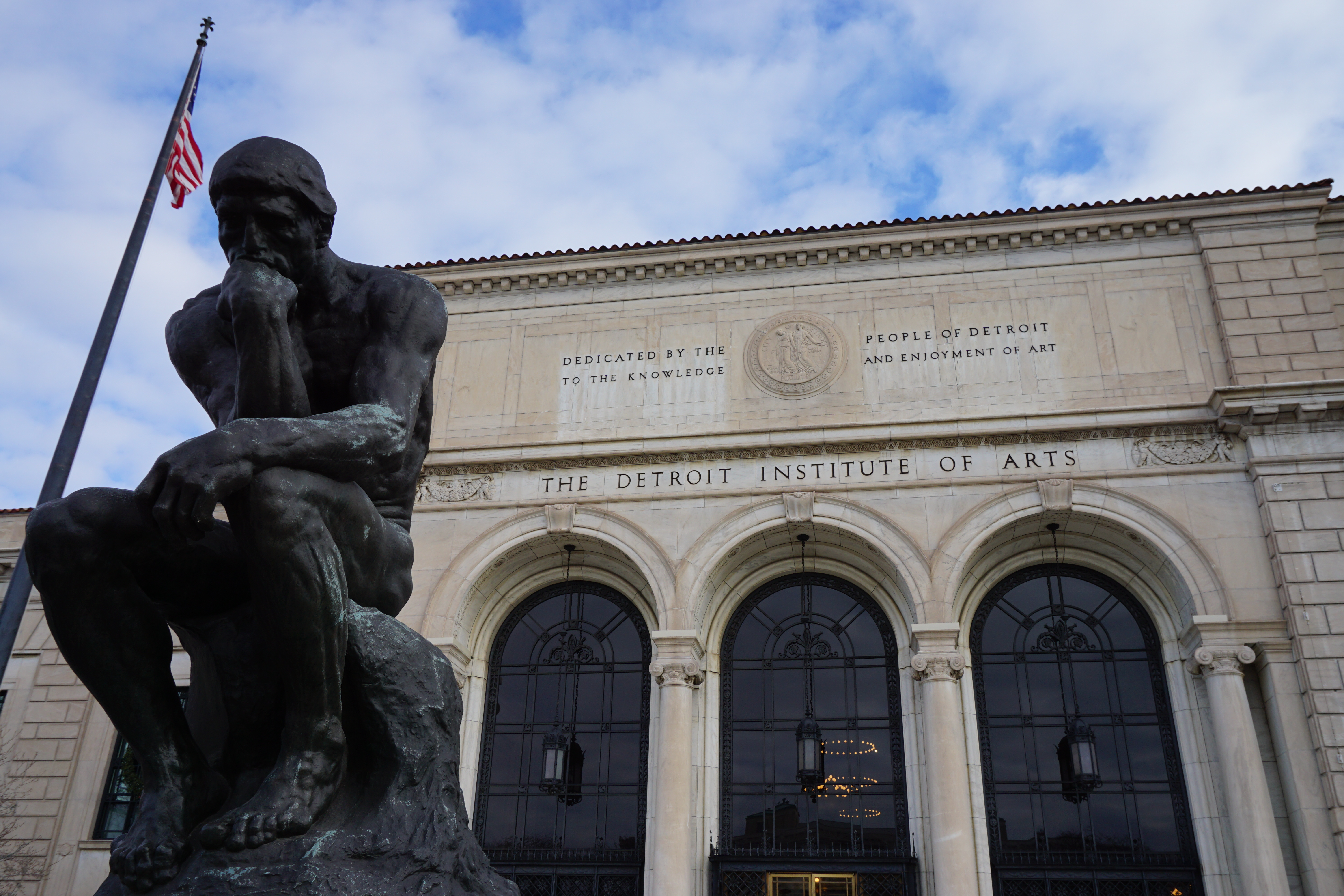 Auguste Rodin's The Thinker in front of the exterior of the (main) Woodward Entrance at the Detroit Institute of Arts in Detroit, Michigan (United States).